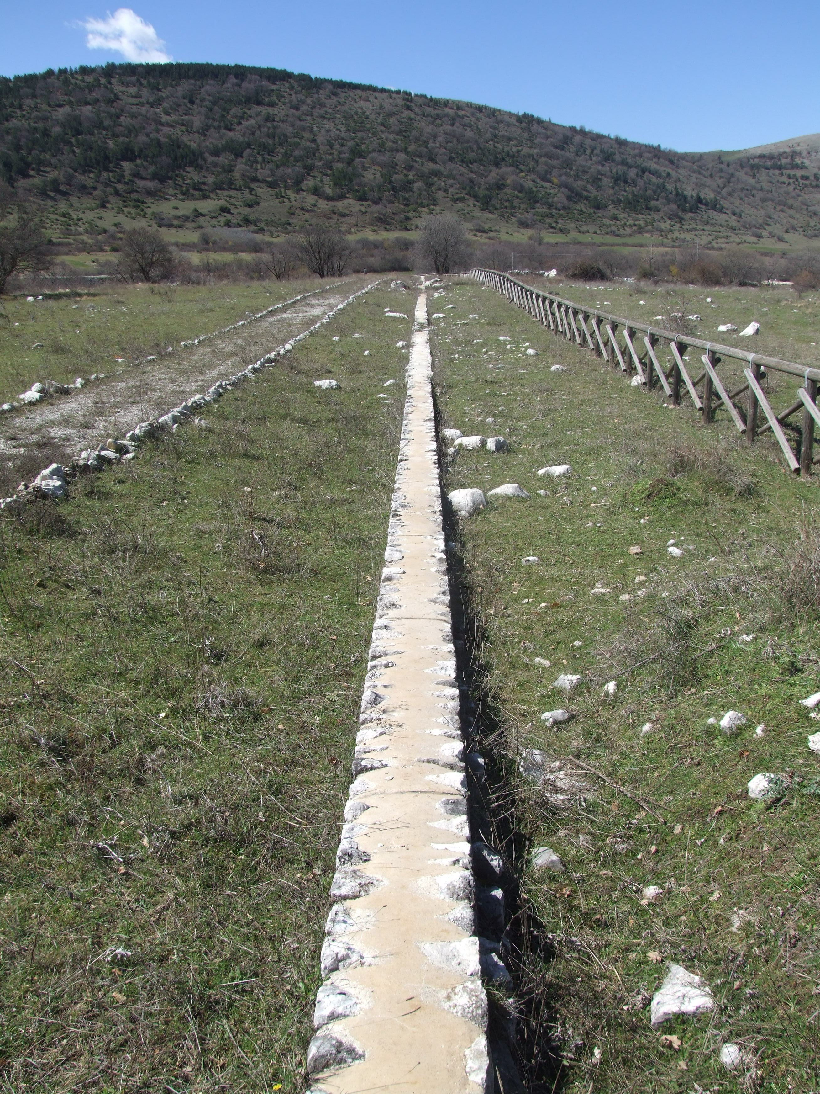 The 'temenos' of Ocriticum